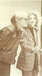 .jpg pic of Andy Warhol to be used for David Ferguson bio. Licensing